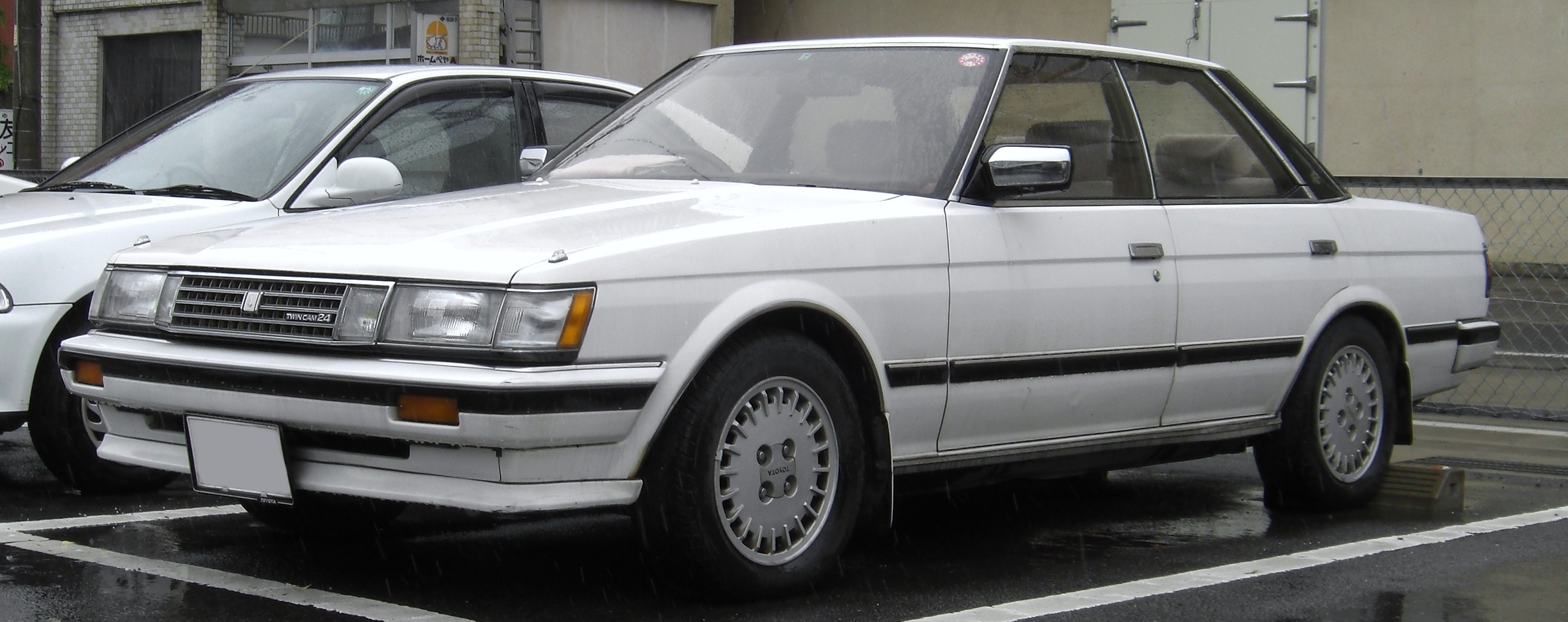 Toyota Mark II